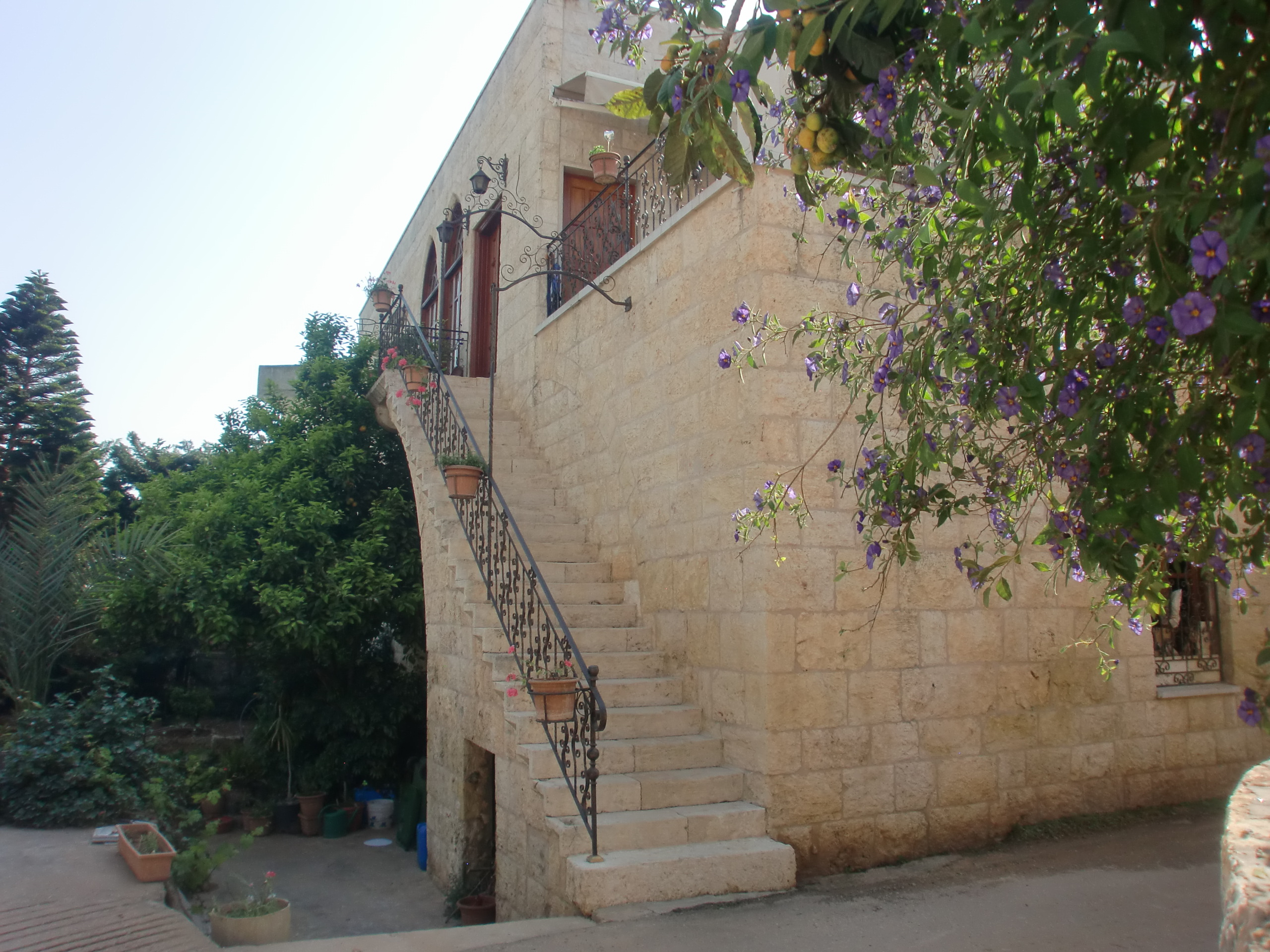 Lebanese style house in Bdebba Koura, Lebanon